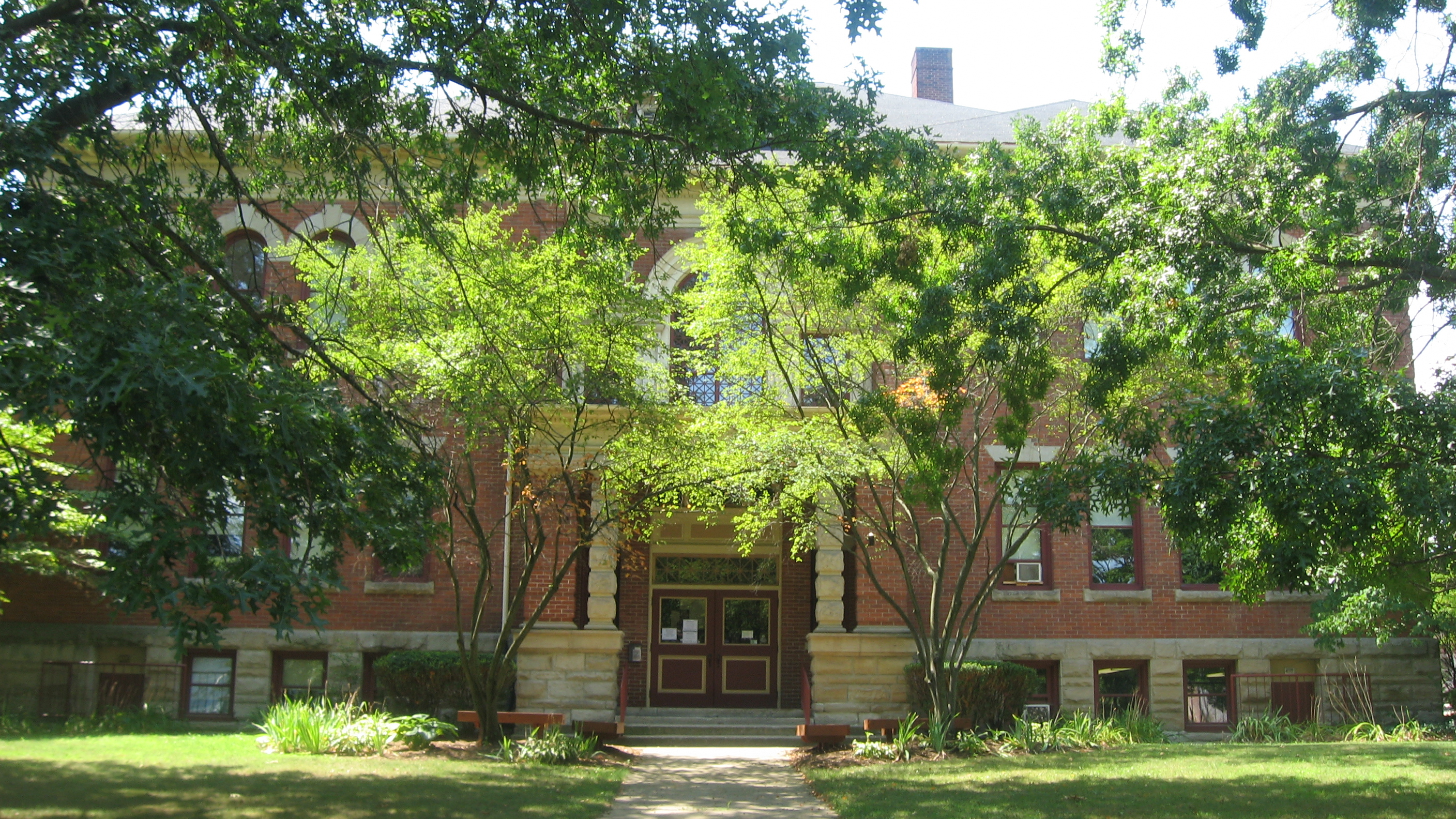 Front of the Walnut Street School (now the Wayne Center for the Arts), located at 237 S. Walnut Street in Wooster, Ohio, United States. Built in 1902, it is listed on the National Register of Historic Places.